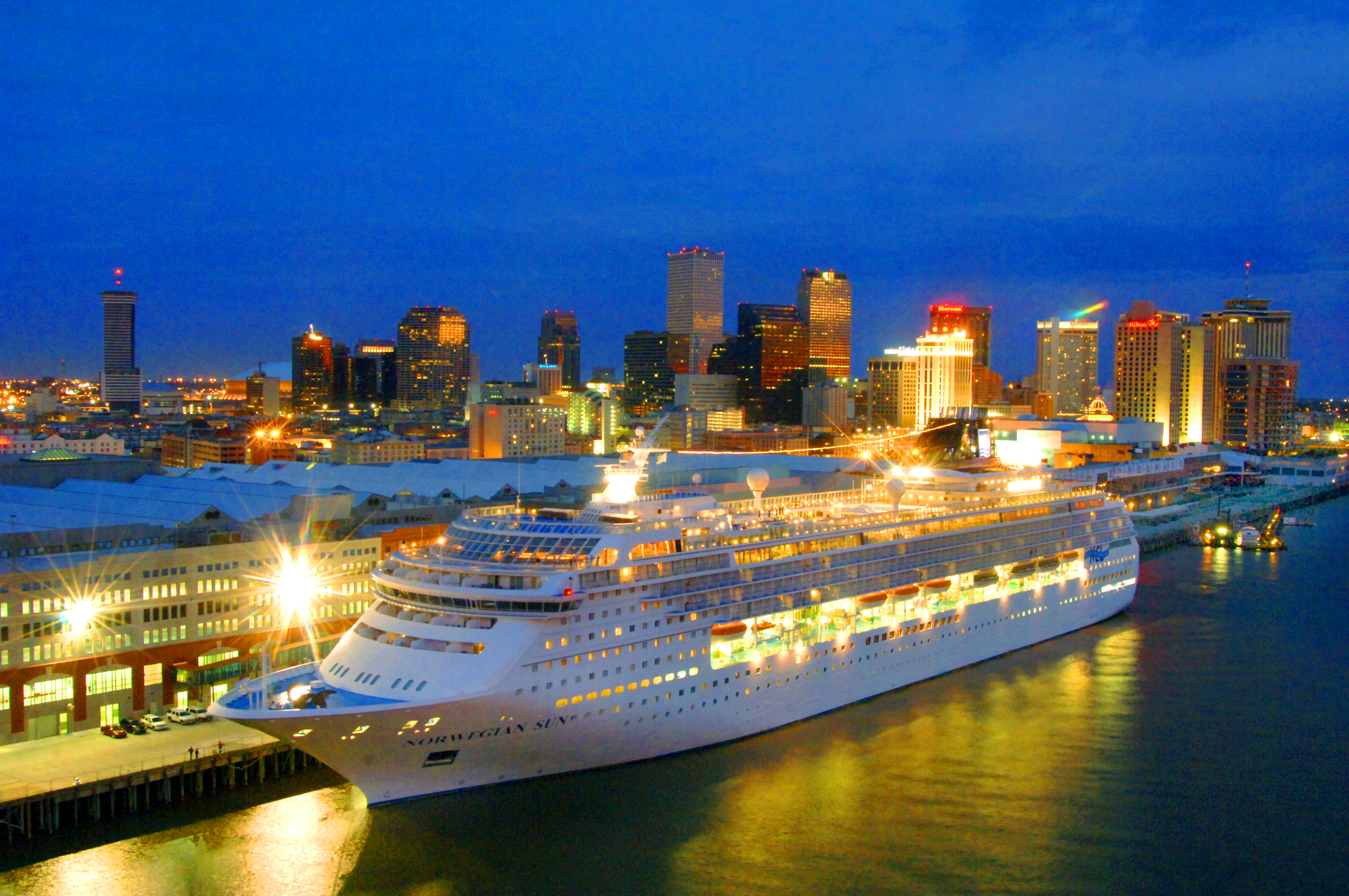 The Port of New Orleans has a cruise line terminal that accommodates cruise lines such as Carnival, Norwegian, and ACCL at the Port of New Orleans.